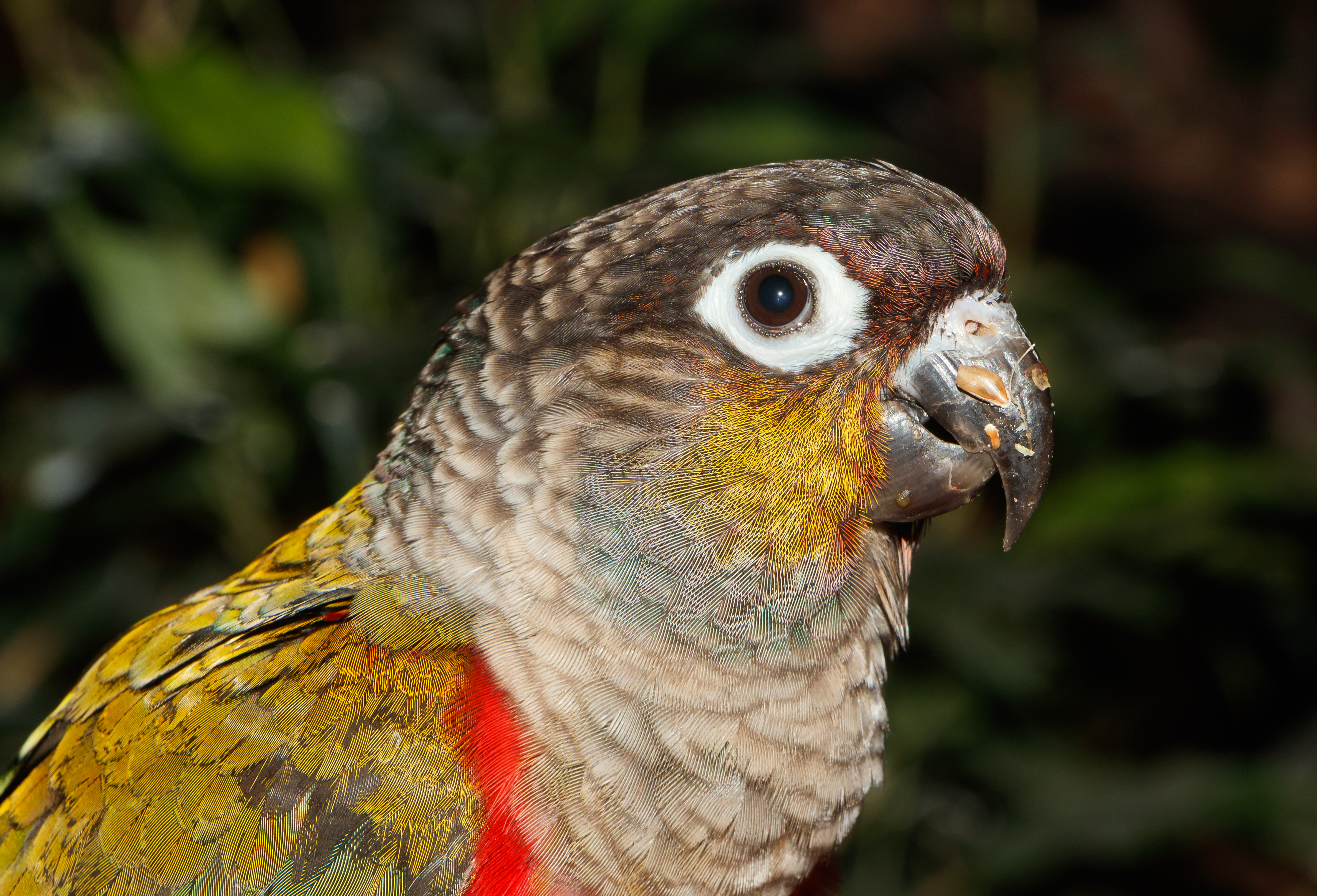 Pyrrhura perlata (Spix, 1824), Crimson-bellied parakeet; Zoologischer Stadtgarten Karlsruhe, Karlsruhe, Germany.